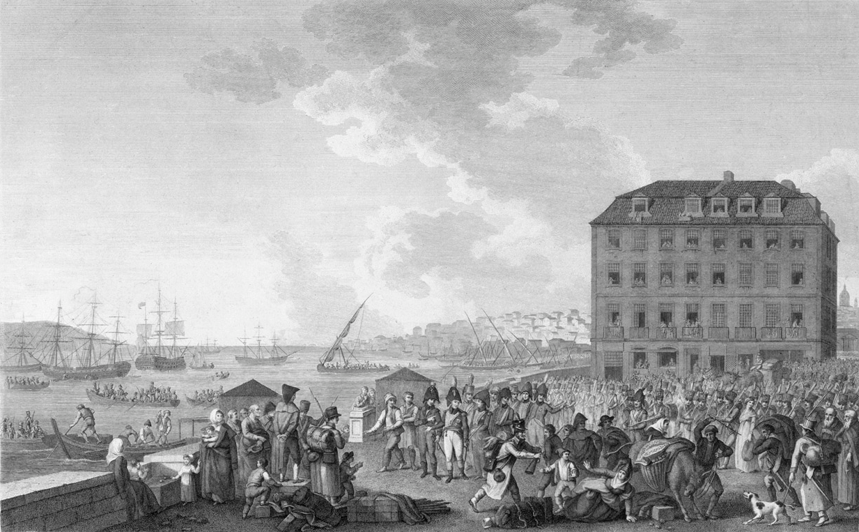 "The Embarkation of Genl. Junot, after the Convention of Cintra, at Quai Sodre", drawn by Henri L' Évêque, engraved by Francesco Bartolozzi.